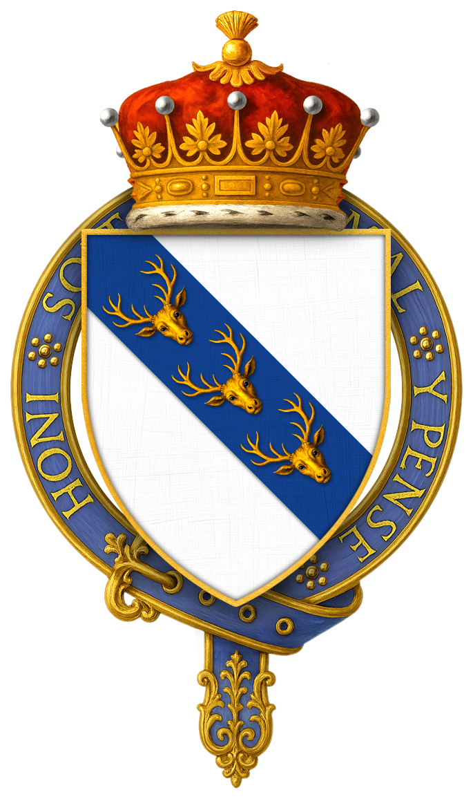 Coat of arms of Edward Stanley, 15th Earl of Derby, KG, PC, FRS